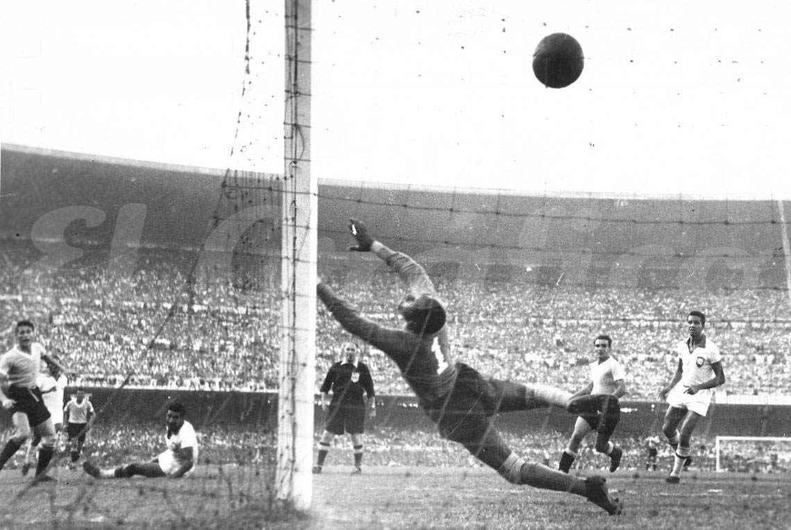 The first goal of Uruguay, by Juan A. Schiaffino.